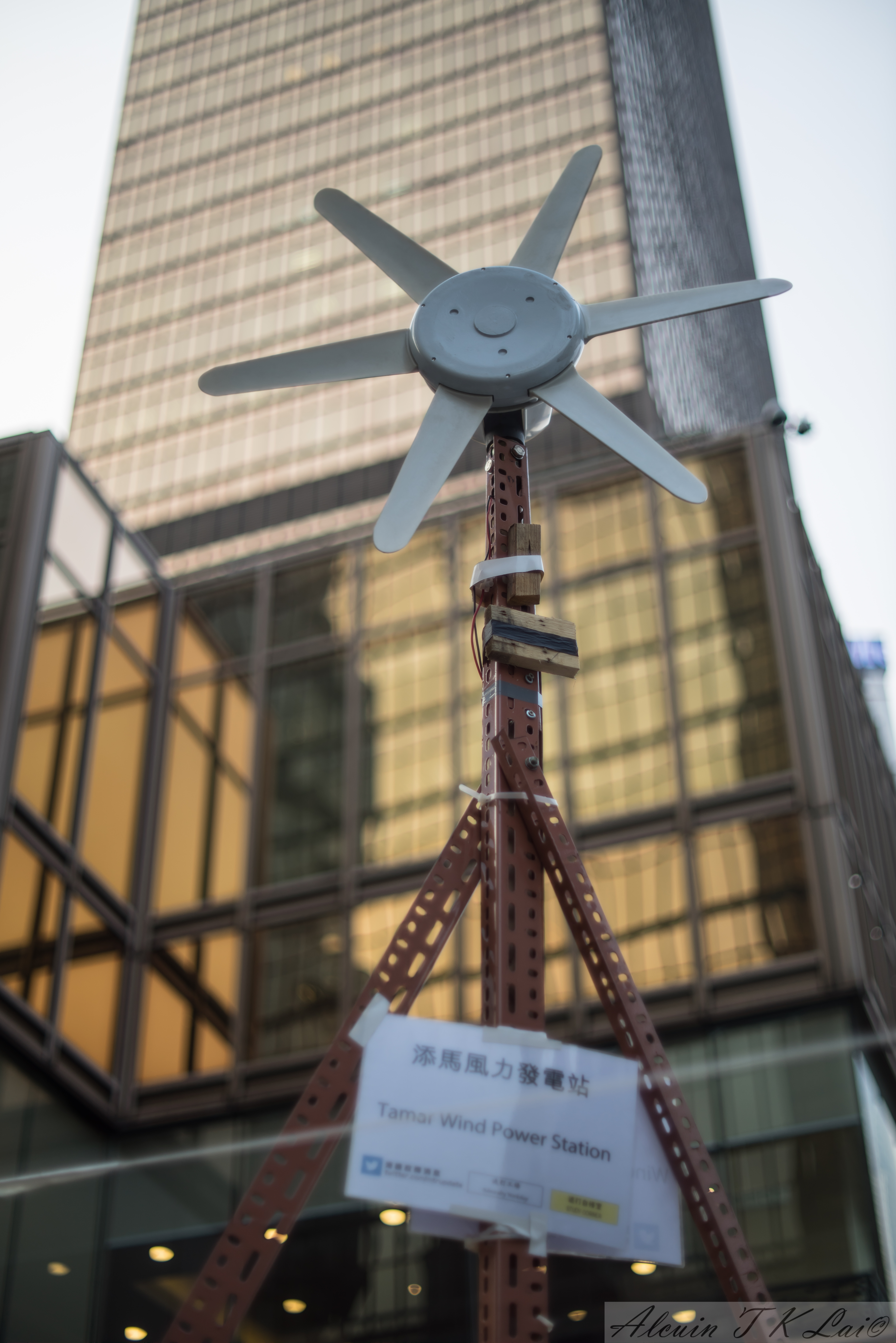 Wind turbine on Harcourt Road, Admiralty